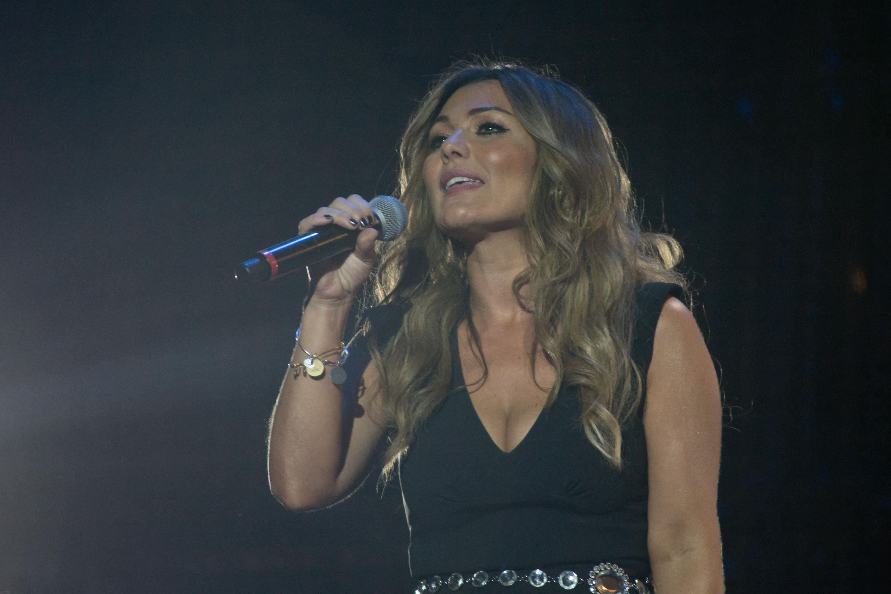 Amaia Montero in Rock in Rio Madrid 2012.